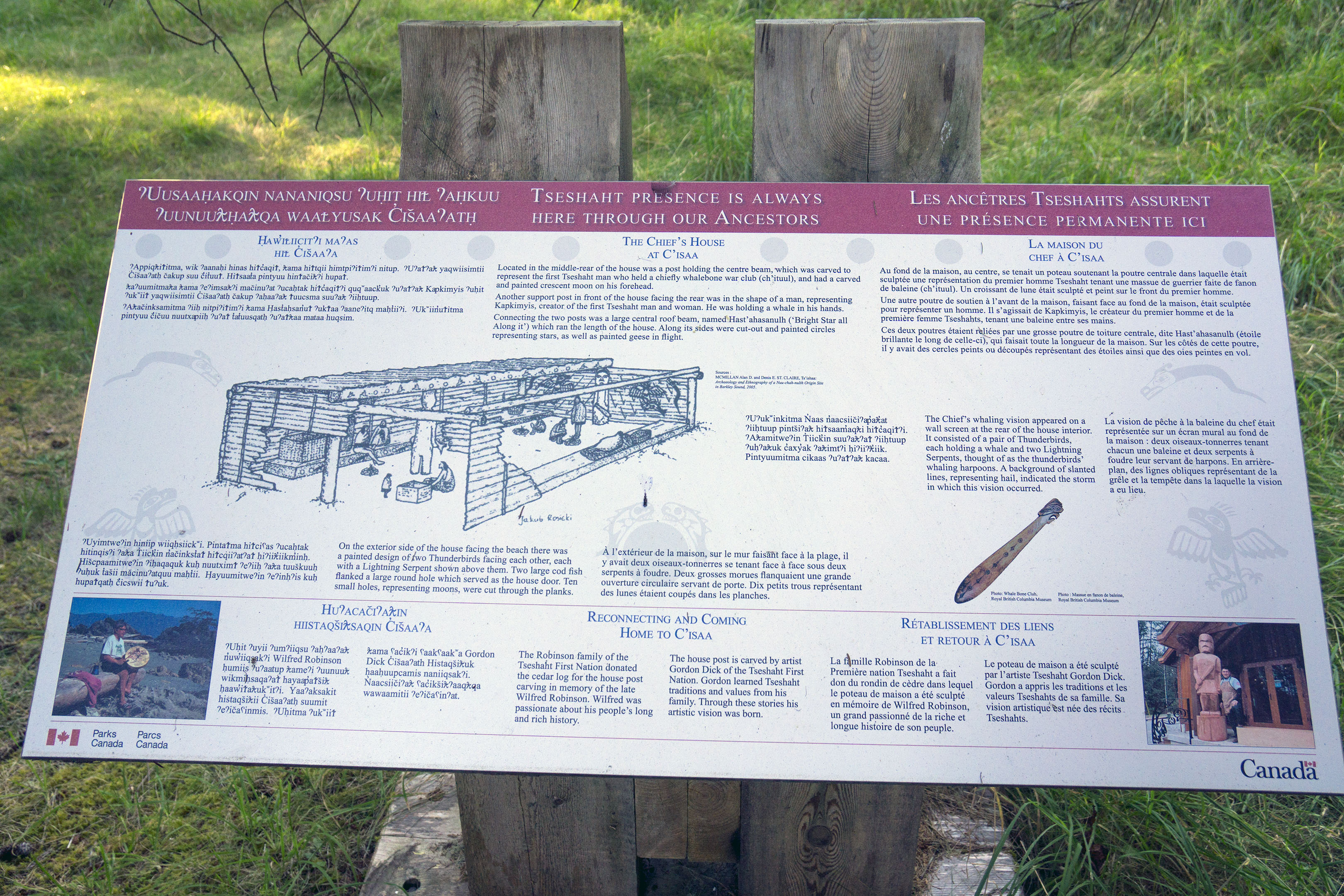 Interpretive sign describing a Tseshaht First Nations cultural site on Benson Island, British Columbia, Canada.